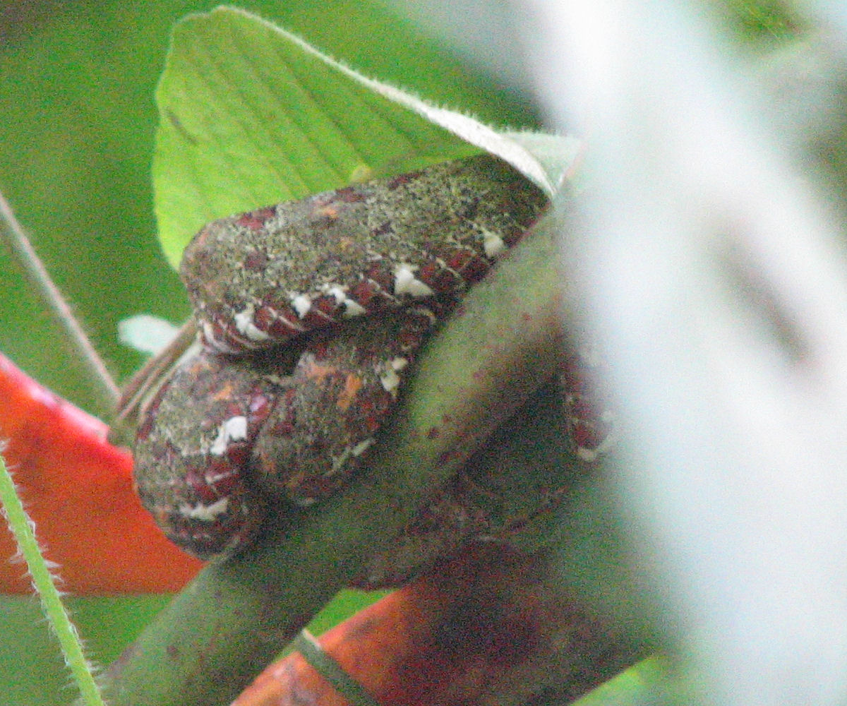 Eyelash Viper (Bothriechis schlegelii), Manuel Antonio Park, Costa Rica